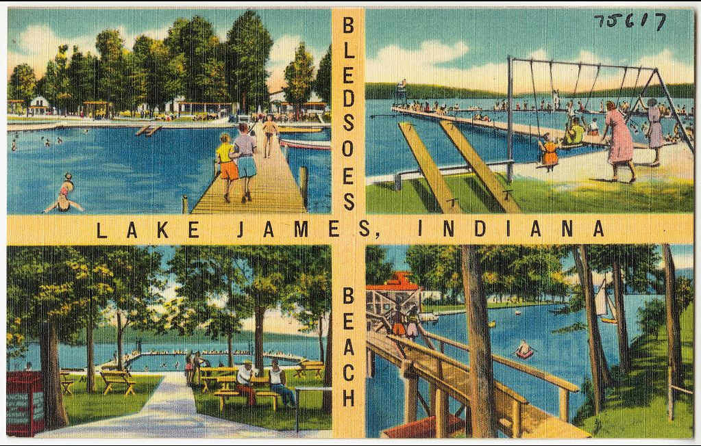 Postcard of Bledsoe's Beach on Lake James in Indiana, circa 1930-1945. Part of Boston Public Library's Tichnor Brothers Collection